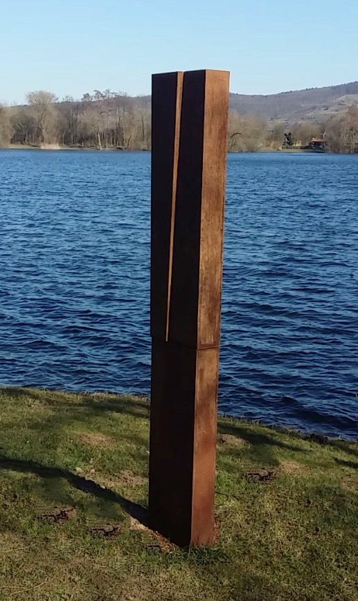 Moving Sculpture "Friendship", Jürgen Heinz, Public Space, Hemsbach, Germany, 2017